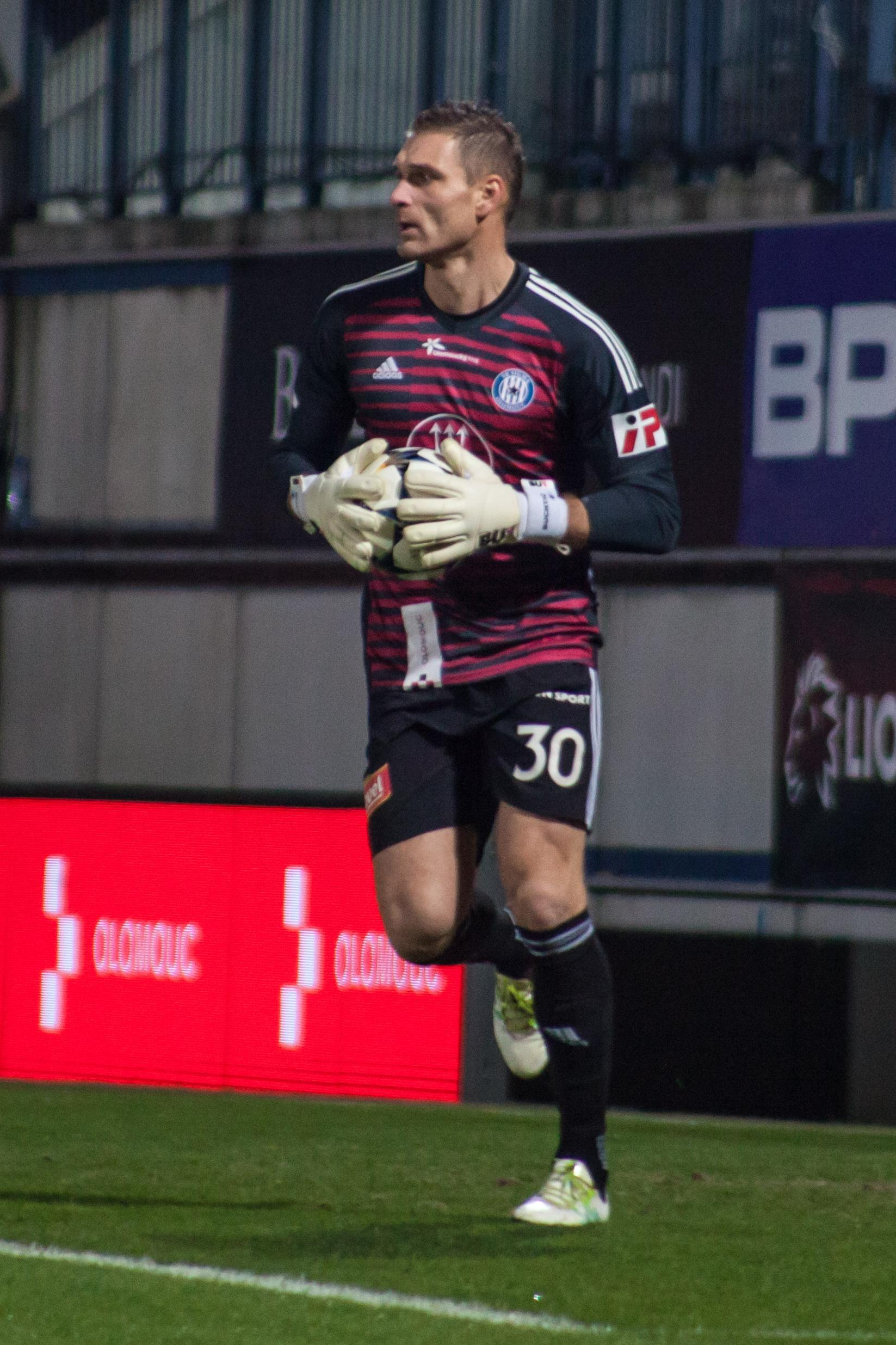 Miloš Buchta At Czech cup (MOL Cup) match SK Sigma Olomouc-FC Fastav Zlín played on 15 November 2018